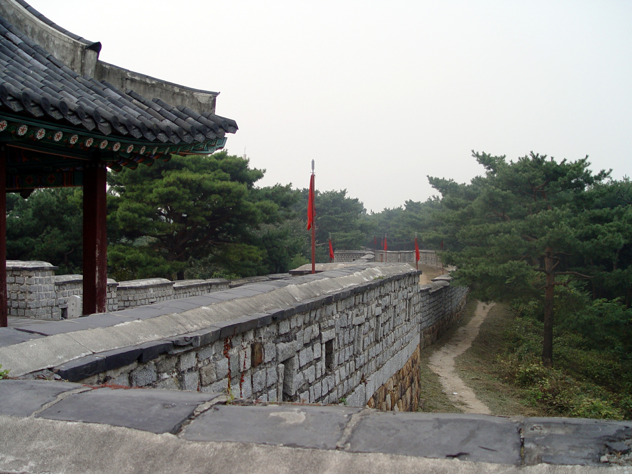 The south-west spur of Hwaseong Fortress, Suwon, South Korea